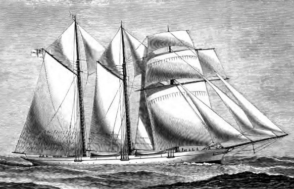 Steam Yacht Sunbeam launched 1874 owned by Sir Thomas Brassey